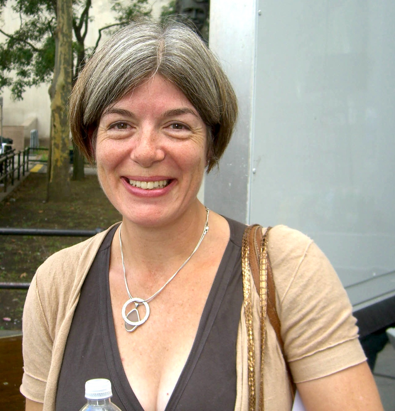 Writer Claire Messud at the 2009 Brooklyn Book Festival.